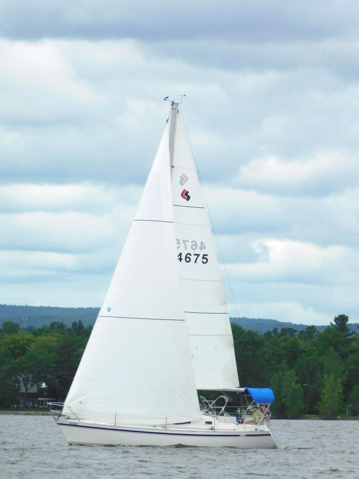 A CS 30 sailboat with large overlapping genoa.